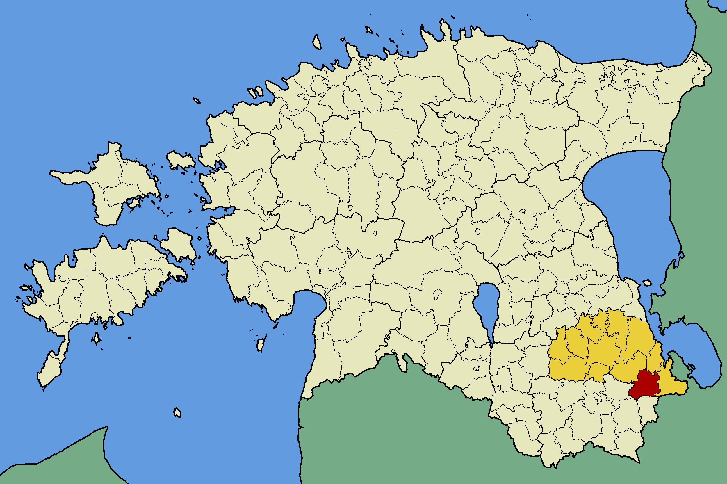 Map of Estonia with borders of municipalities (parishes). Põlva county and Orava municipality emphasized.